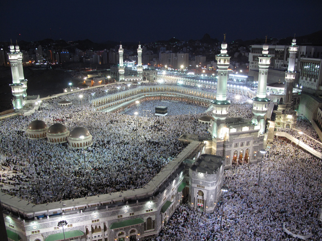 Worshippers flood the Grand mosque, its roof, and all the areas around it during night prayers in Mecca.